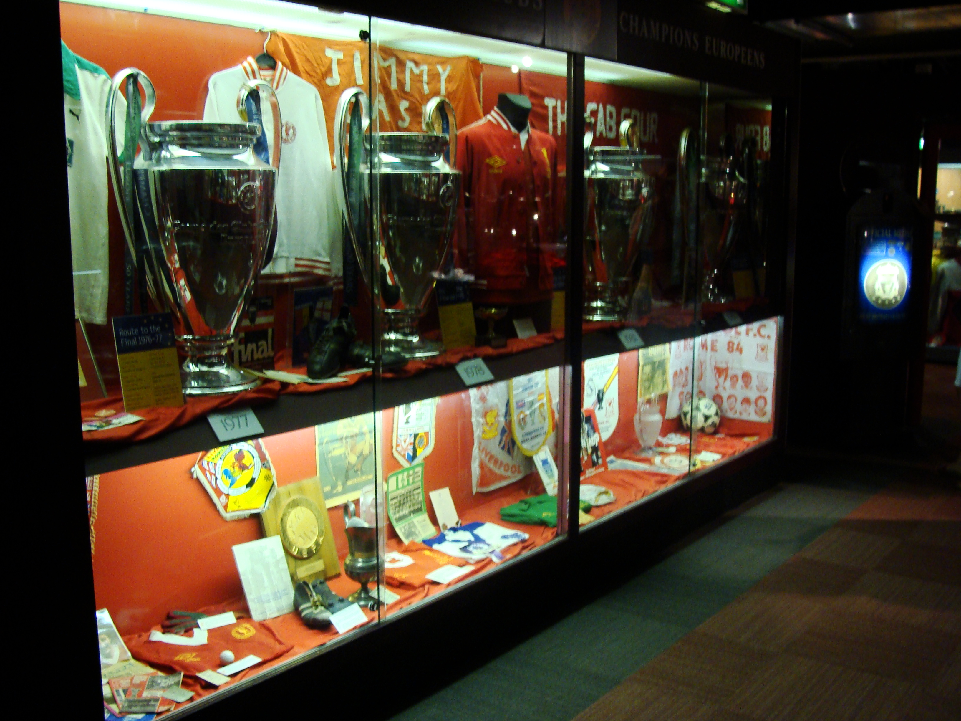 Liverpool cabinet displaying the European Cups